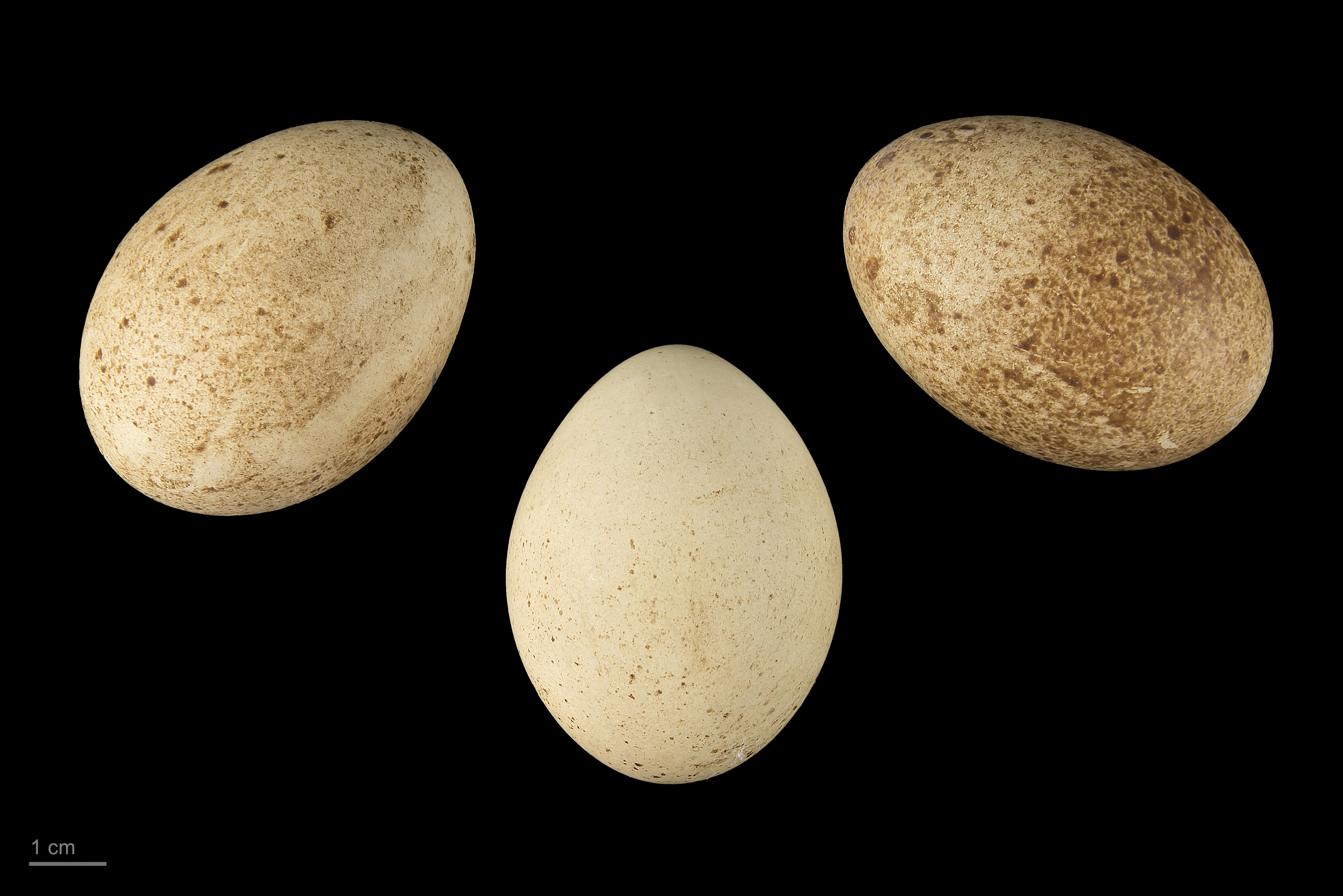 Egg of Cabot's tragopan Collection of Jacques Perrin de Brichambaut.